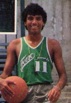 Argentine basketball player Miguel Cortijo while playing for Ferro Carril Oeste.